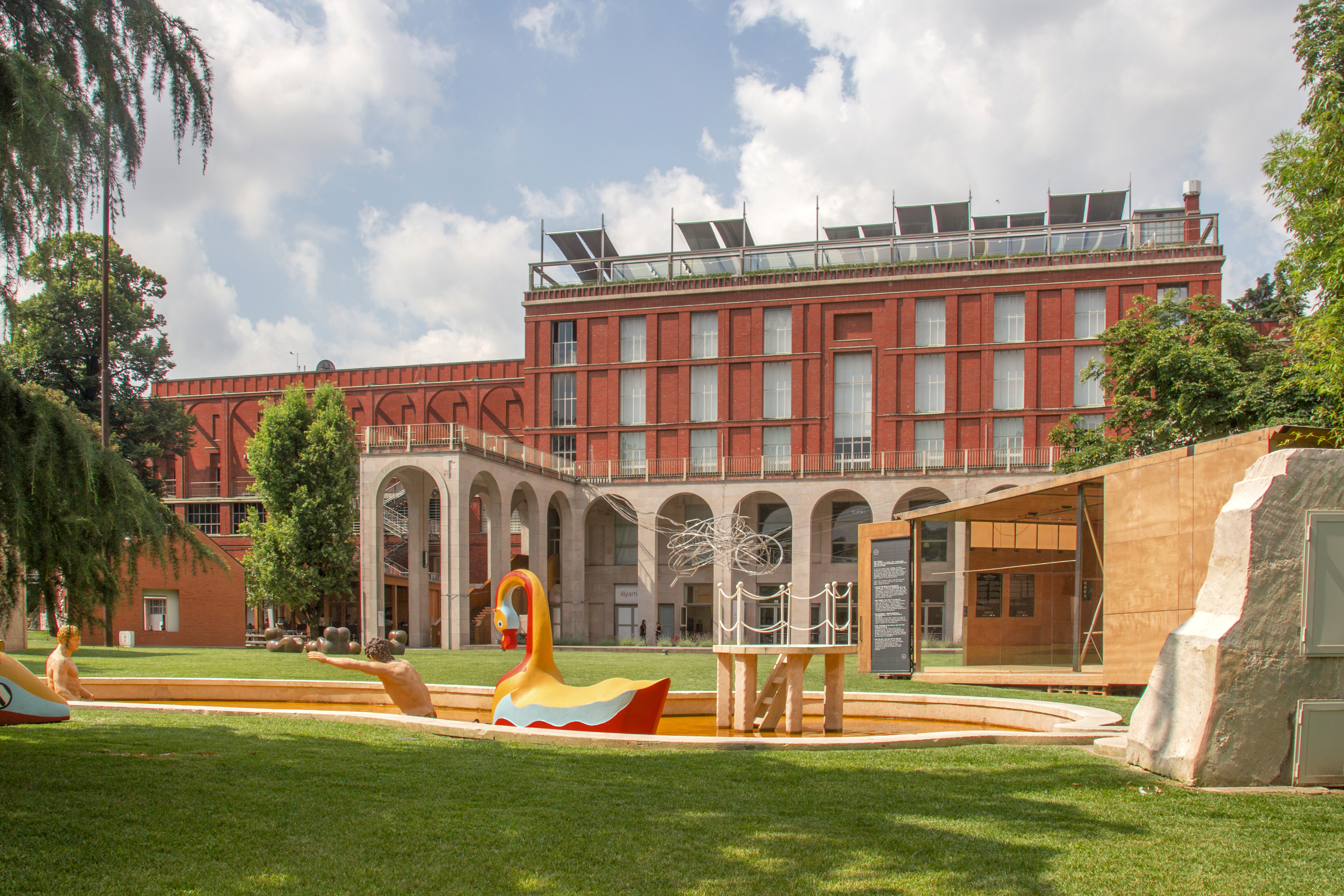 Parco Sempione, Milan. Wikimania 2016, Esino Lario, Italy